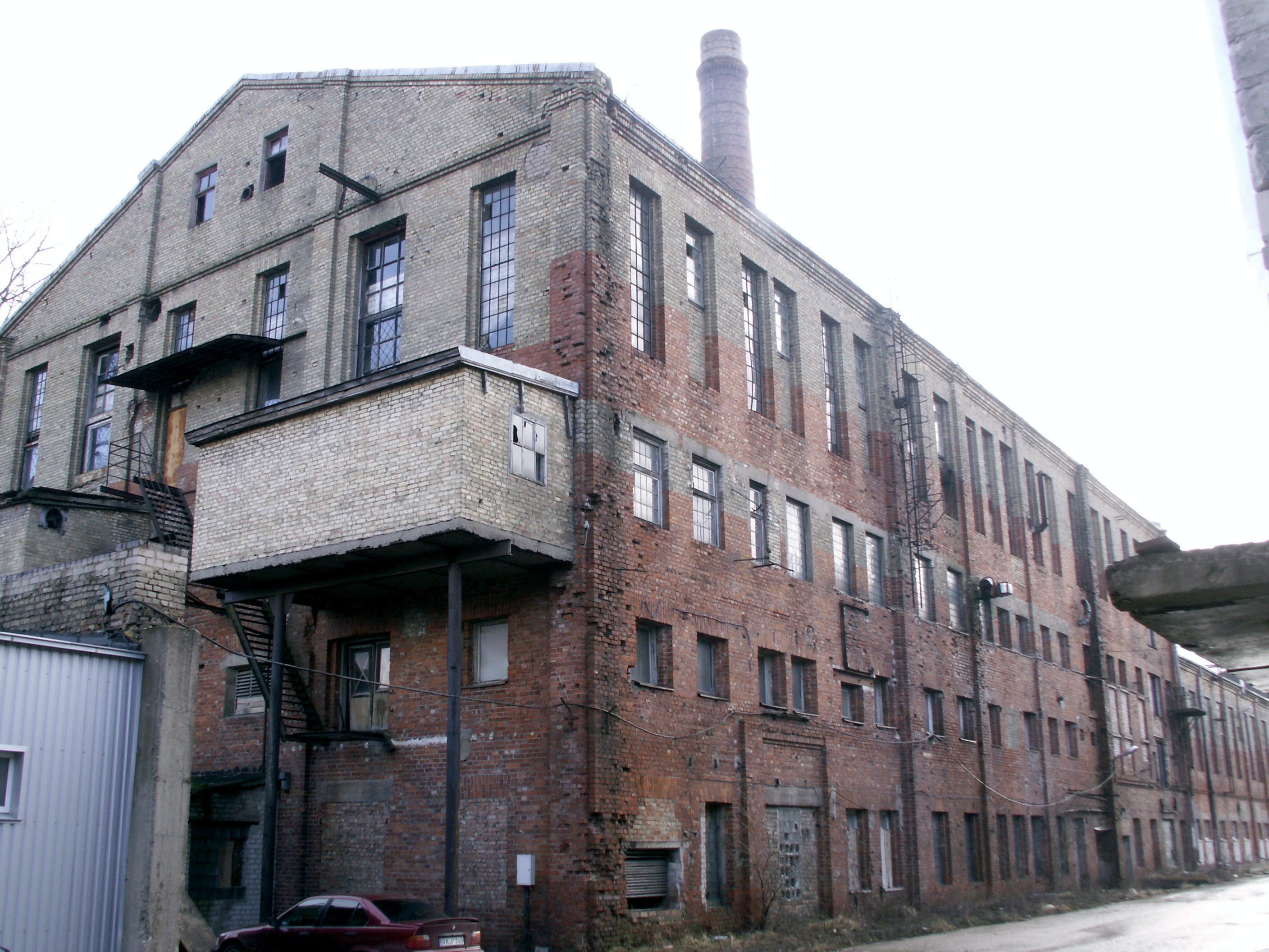 Former Chaimas Frenkelis tannery in Šiauliai